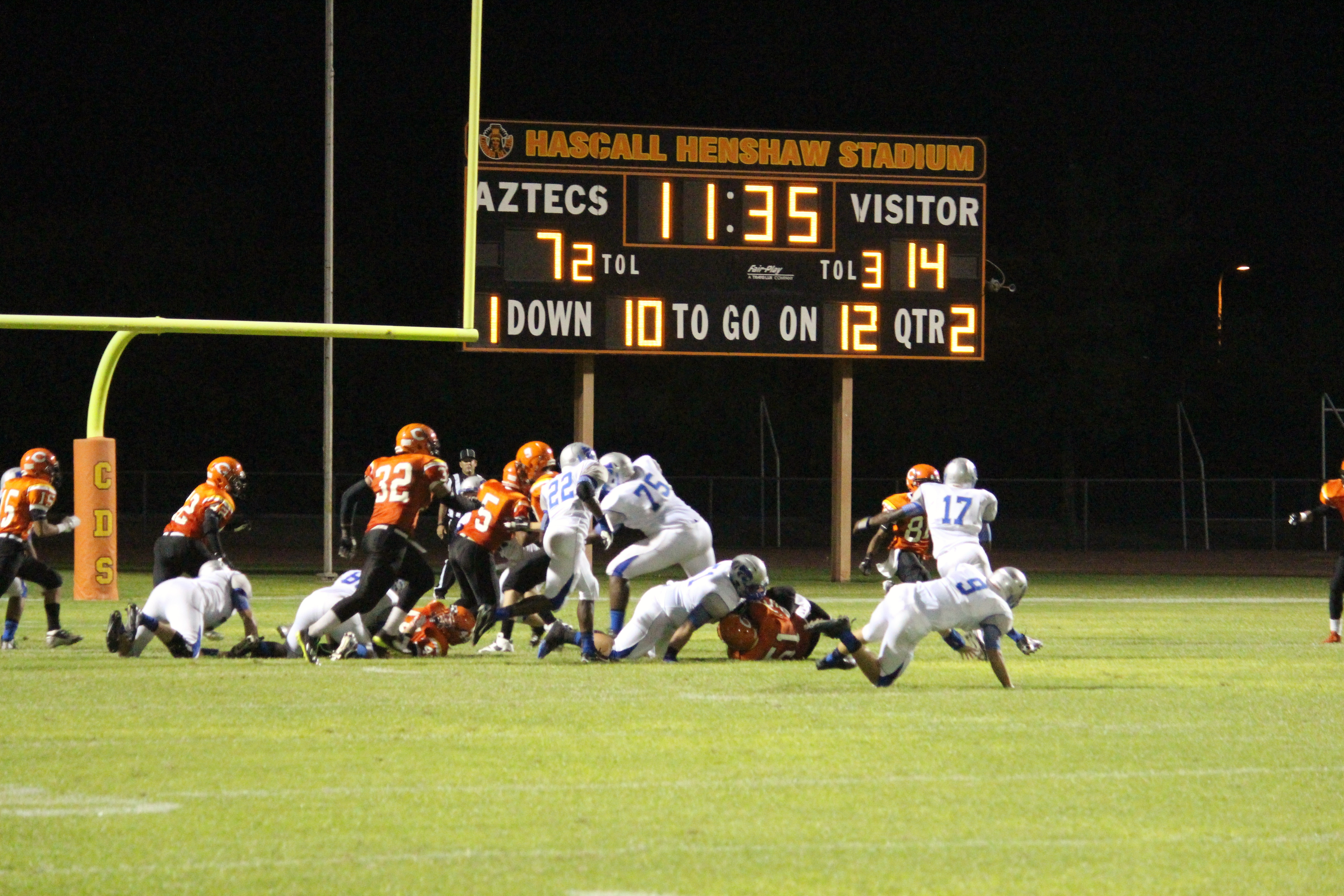 The Corona del Sol High School Aztecs play the Mesquite High School Wildcats at Hascall Henshaw Stadium located at Corona del Sol High School in Tempe, Arizona.